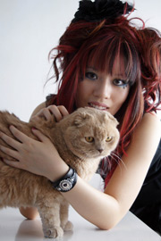 A self-portrait of Canadian celebrity La Carmina.